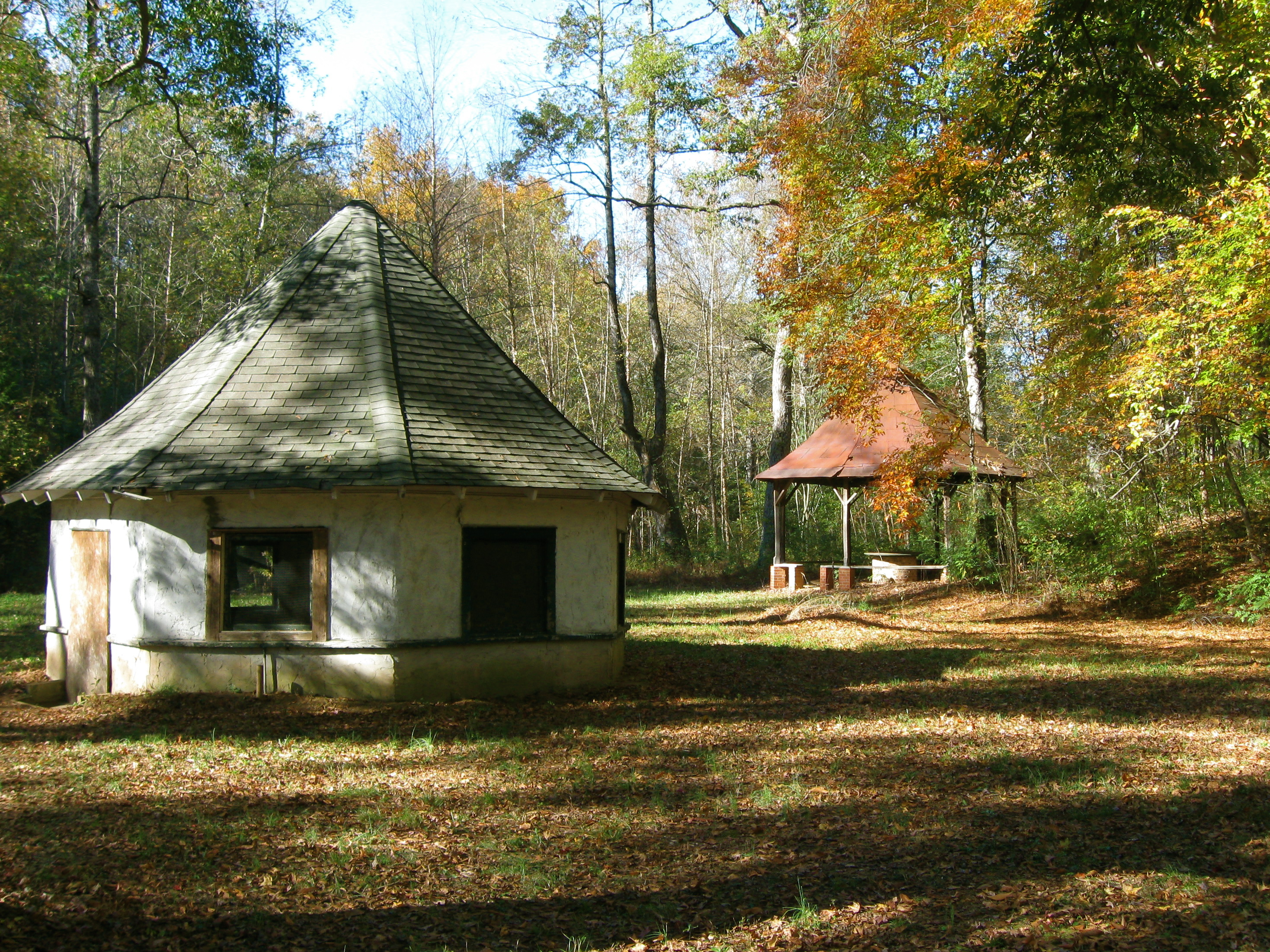 Spring house and gazebo, Chick Springs, Taylors, Greenville County, South Carolina, USA